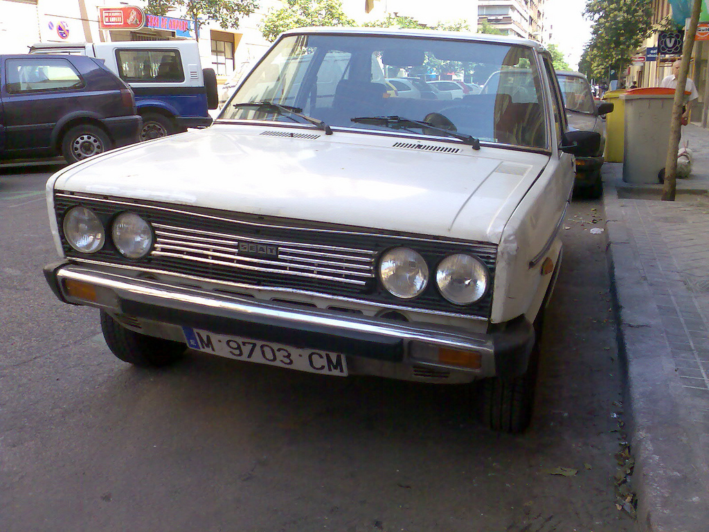 131 SEAT 1978 Gracias Robert. M 767048